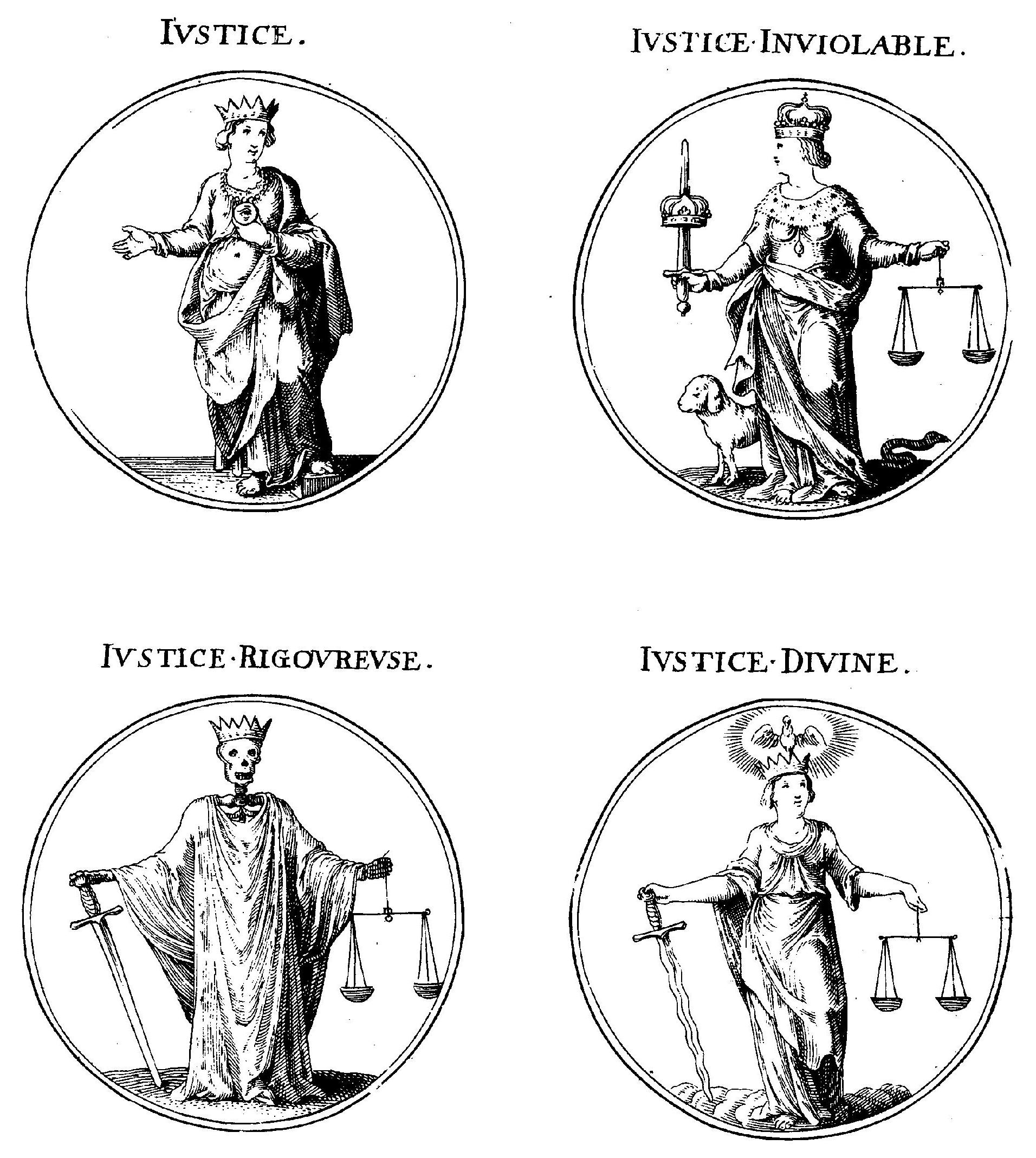 Cesare Ripa, Iconologia, translated into French by Jean Baudoin, 1643 edition.